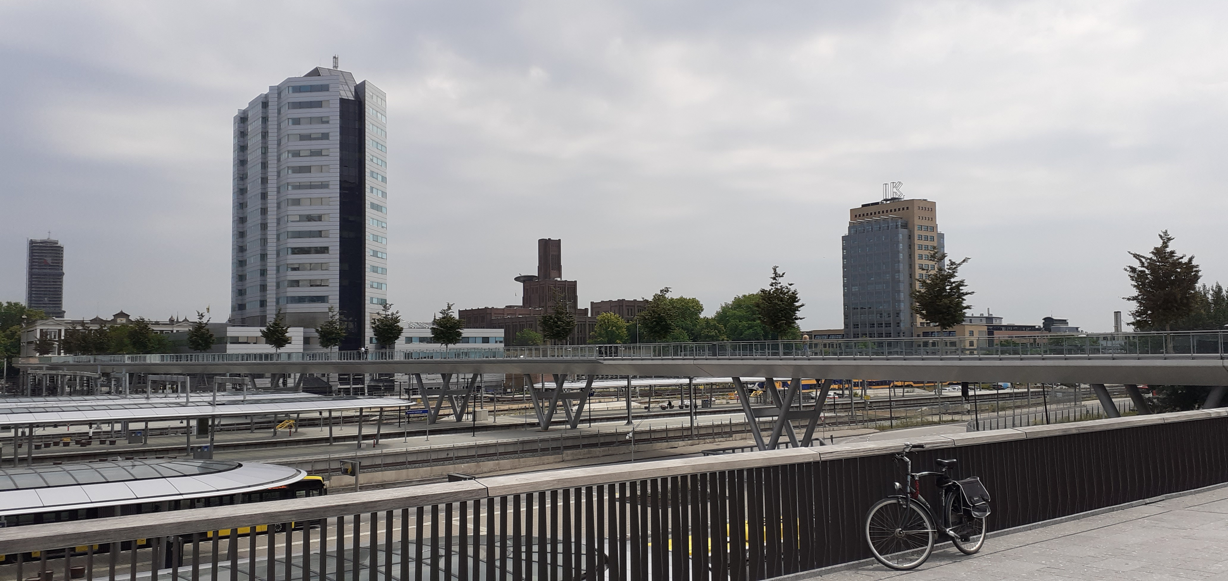 The Moreelsebrug across the railway